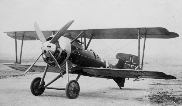 PictionID:43637340 - Catalog:16_004514 - Title:Siemens-Schuckert D.IV 1918 Nowarra photo - Filename:16_004514.TIF - - - - - - - Image from the Ray Wagner Collection. Ray Wagner was Archivist at the San Diego Air and Space Museum for several years and is an author of several books on aviation --- ---Please Tag these images so that the information can be permanently stored with the digital file.---Repository: San Diego Air and Space Museum